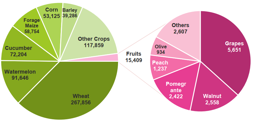 The charts shows the top agricultural products of Ilam Province, Iran. The pie chart in the left shows the top six crops and the chart in the right shows the top five fruits. Based on data from Iran's Ministry of Agriculture: Agricultural Statistics of the Year 1397 Volume 1